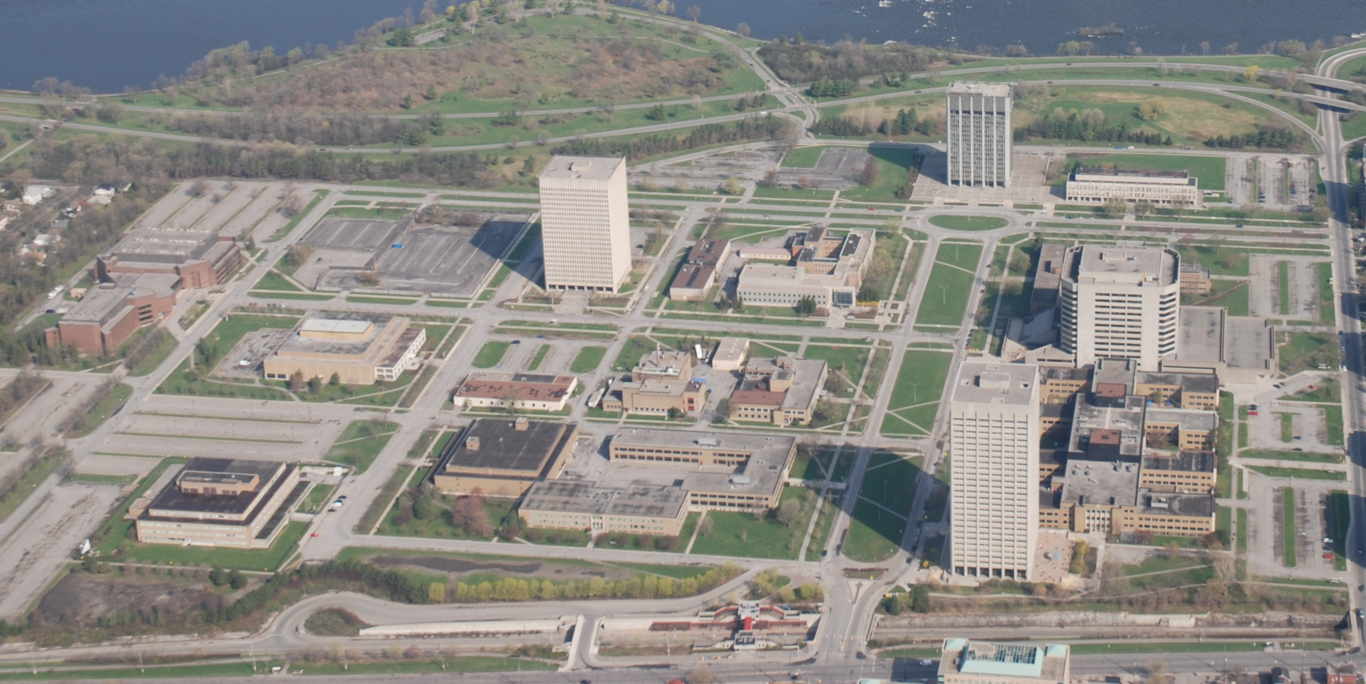 Tunney's Pasture, Ottawa, Ontario, Canada, as of 27 April 2008. Parkdale Avenue can be seen along the right edge of the photo; the Transitway (including the Tunney's Pasture Station) and Scott Street are along the bottom of the photo.